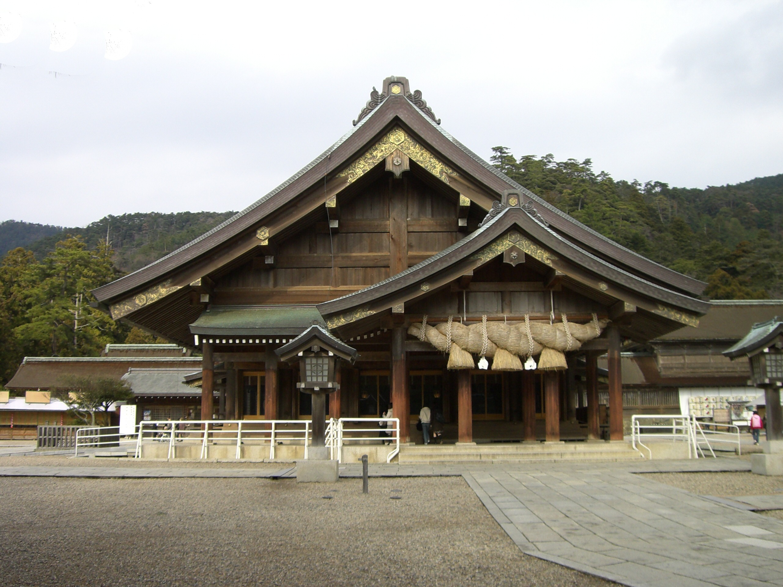 The outer shrine of 出雲大社(Izumo Taisha)